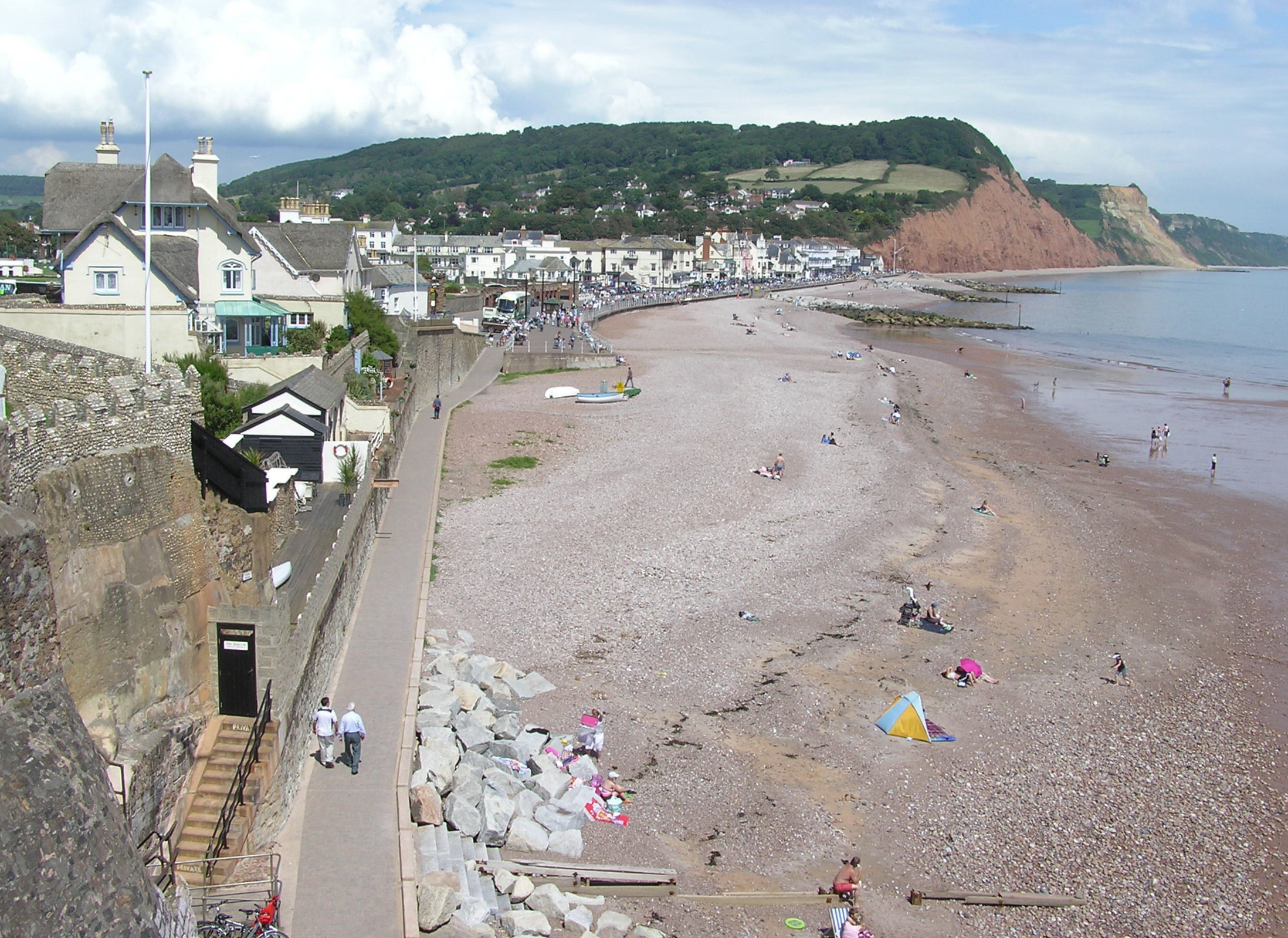 Sidmouth, Devon, England, looking roughly east. Taken by Adrian Pingstone in July 2007 and released to the public domain.